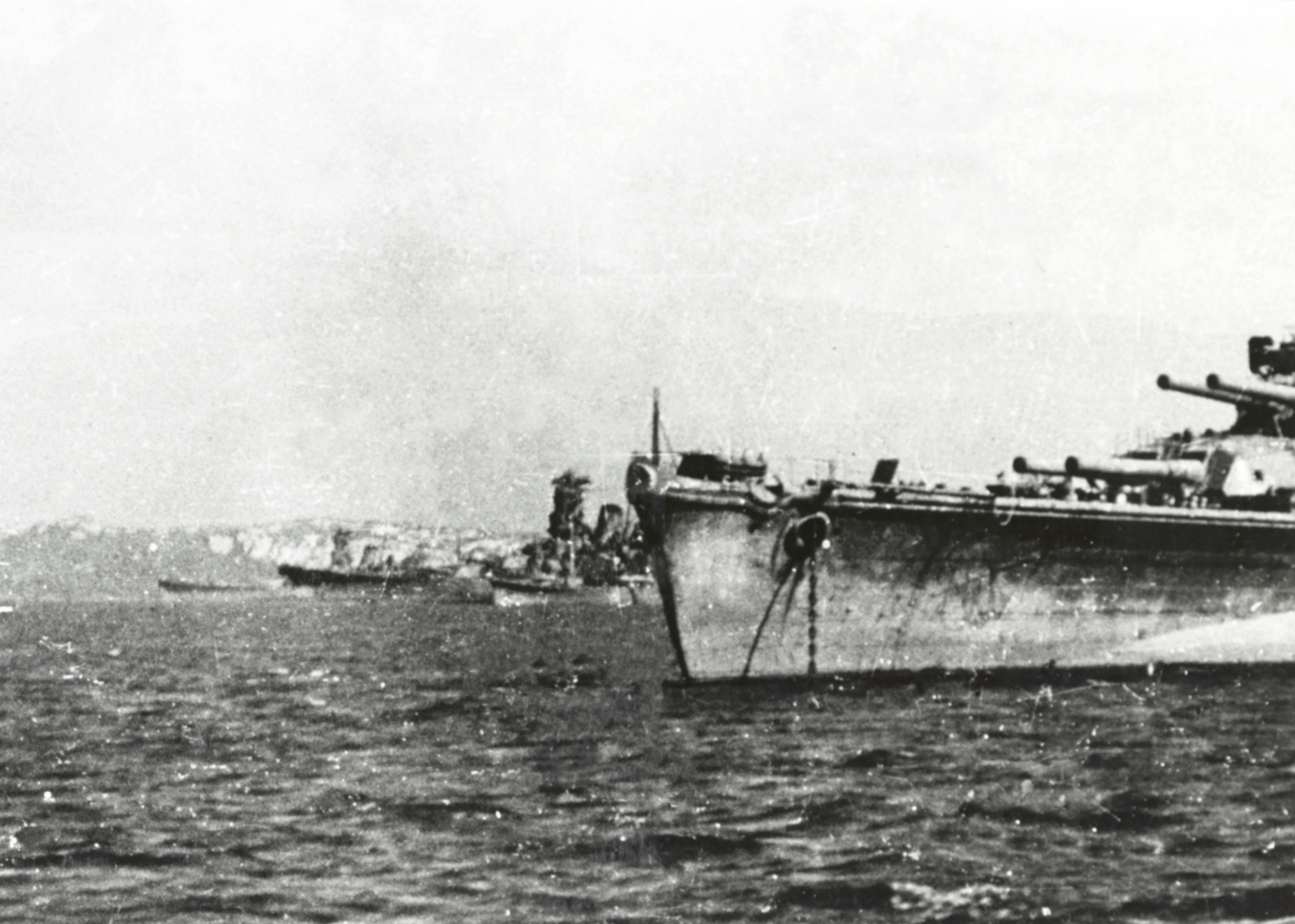 Japanese battleships at Brunei, Borneo, in October 1944, photographed just prior to the Battle of Leyte Gulf. The ships are, from left to right: Musashi, Yamato, a cruiser and Nagato.